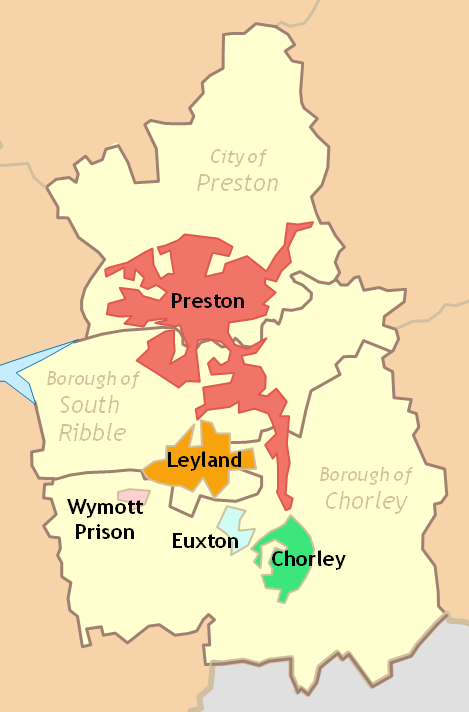 Preston Urban Area, shown within Central Lancashire, England. Preston Urban Area is sub-divided into five disjoint areas, Preston, Leyland, Chorley, Euxton and Wymott Prison, each of which is a contiguous urban area. Central Lancashire consists of the three local government districts of the City of Preston, the Borough of South Ribble and the Borough of Chorley.